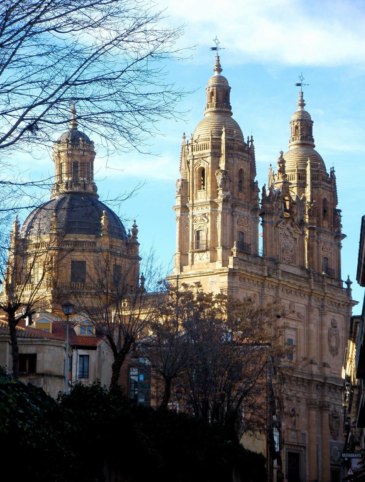 La Clerecía de Salamanca (España)